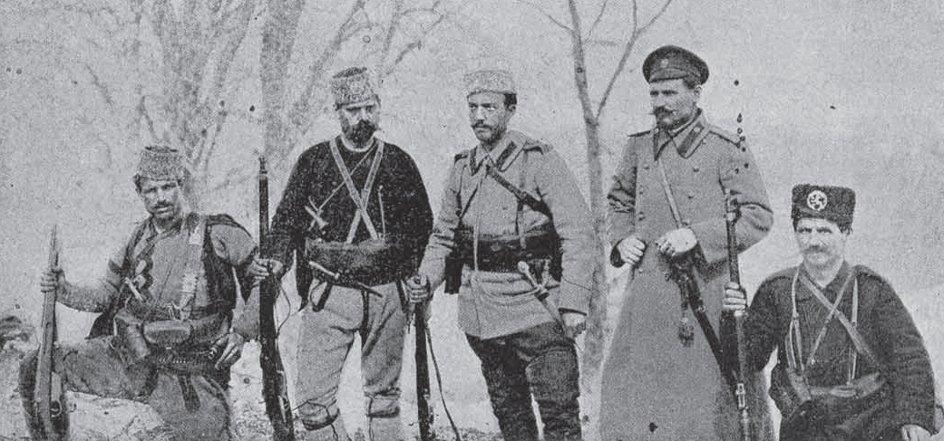 Portrait of bulgarian revolutionary Konstantin Nastev and fellowers